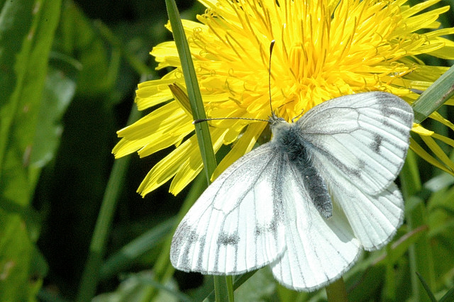 Picture taken in Commanster, Belgian High Ardennes . Species: Pieris napi female